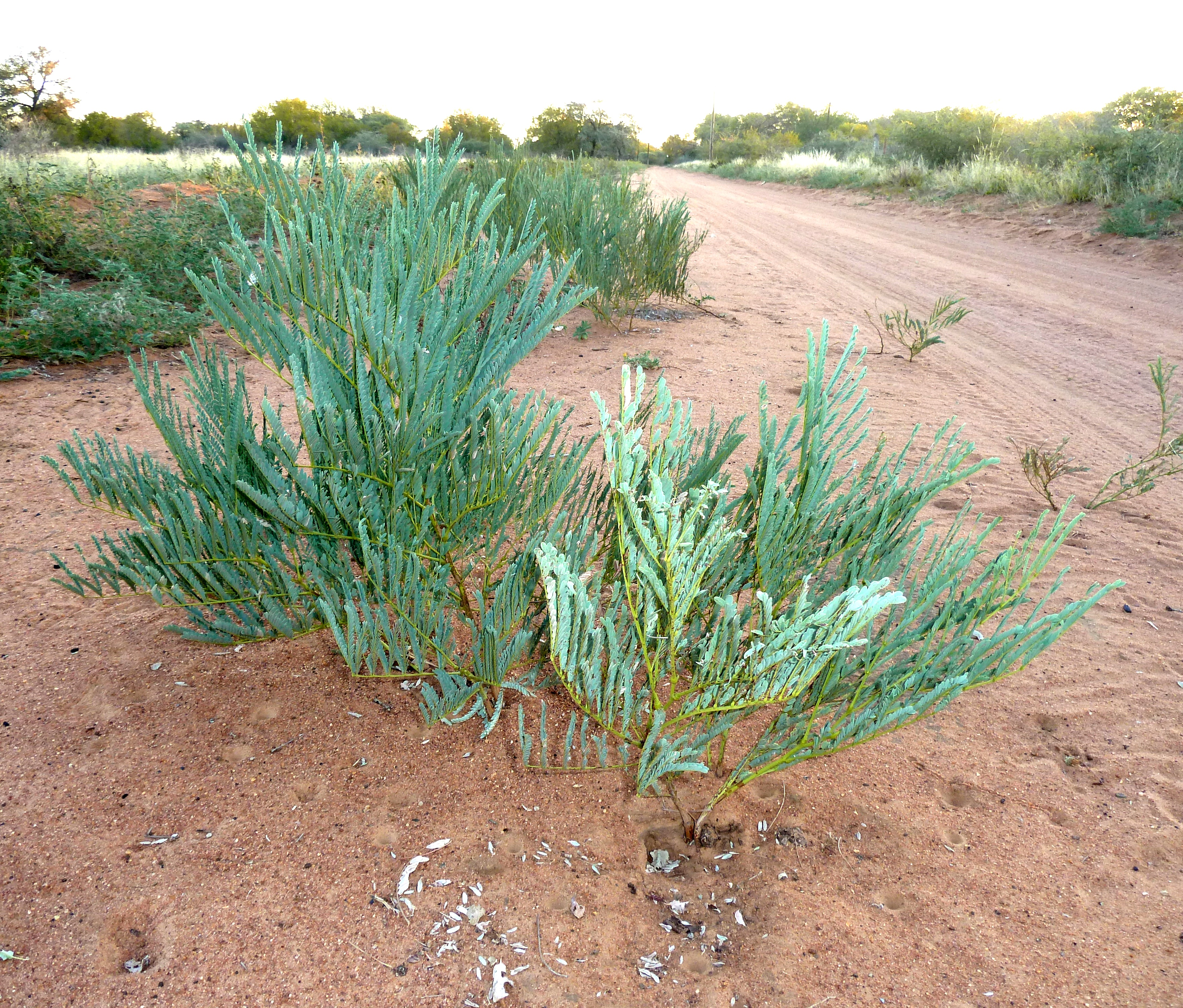 Foliage of Eland's wattle near Steenbokpan, Limpopo, South Africa. The exact species is difficult to determine, as the foliage is similar among species, while they differ mainly in underground parts.